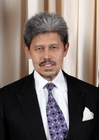 President Barack Obama and First Lady Michelle Obama pose for a photo during a reception at the Metropolitan Museum in New York with Prince Mohamed Bolkiah.